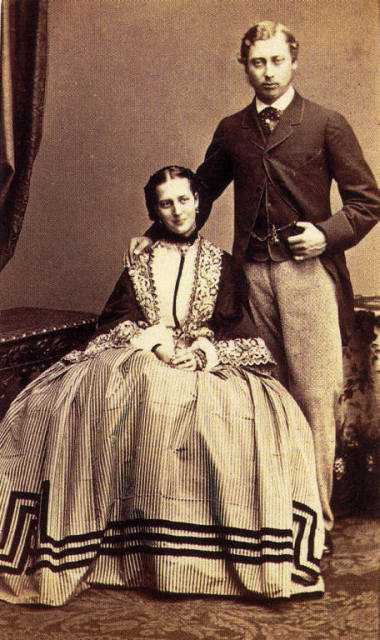 Alexandra of Denmark and Edward VII.